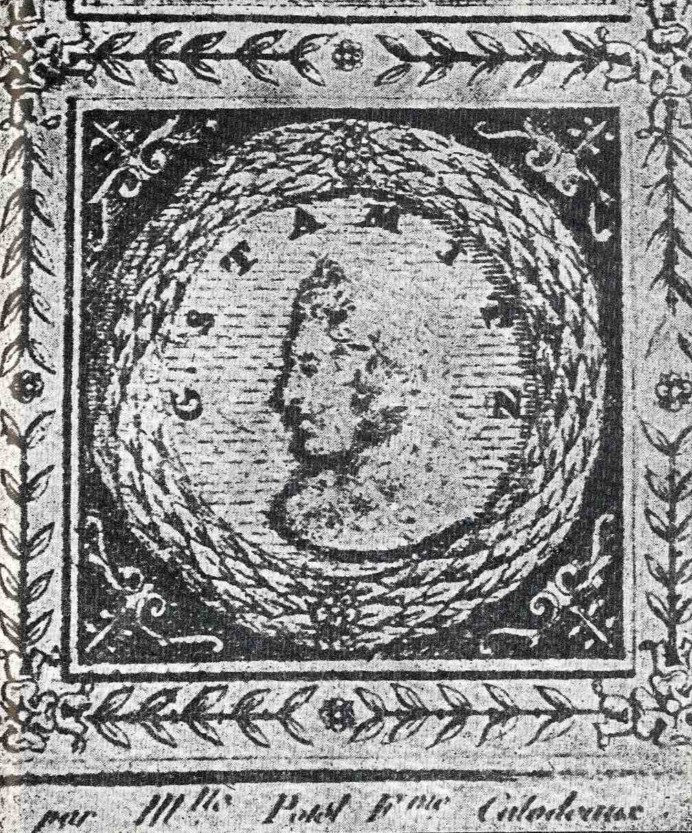 Jan Václav Stamic